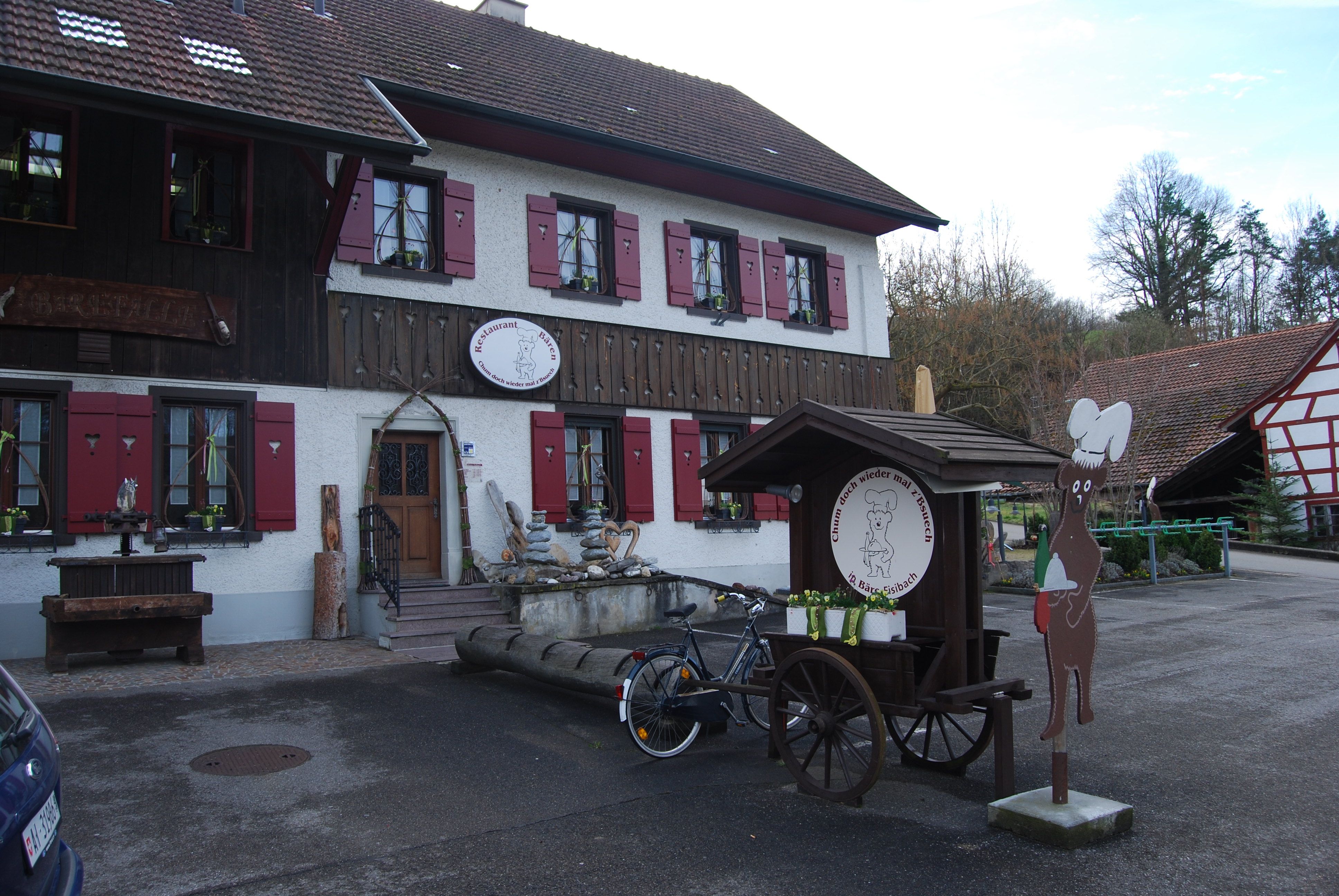 Restaurant Bären at Fisibach, canton of Aargau, SwitzerlandEsperanto: Restoracio Bären en Fisibach, Kantono Argovio, Svislando